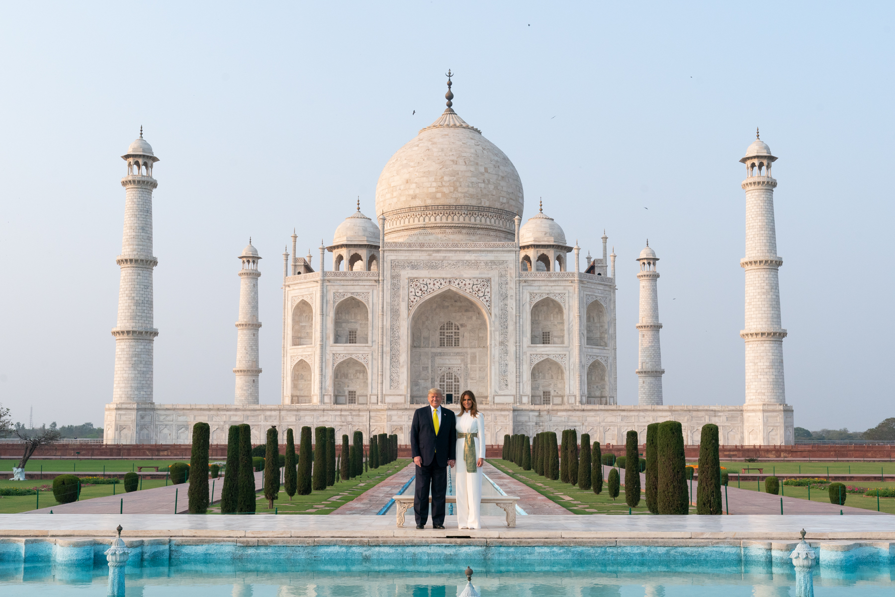 President Donald J. Trump and First Lady Melania Trump take in the view of the reflecting pool as they tour the Taj Mahal Monday, Feb. 24, 2020, in Agra, India. (Official White House Photo by Andrea Hanks)